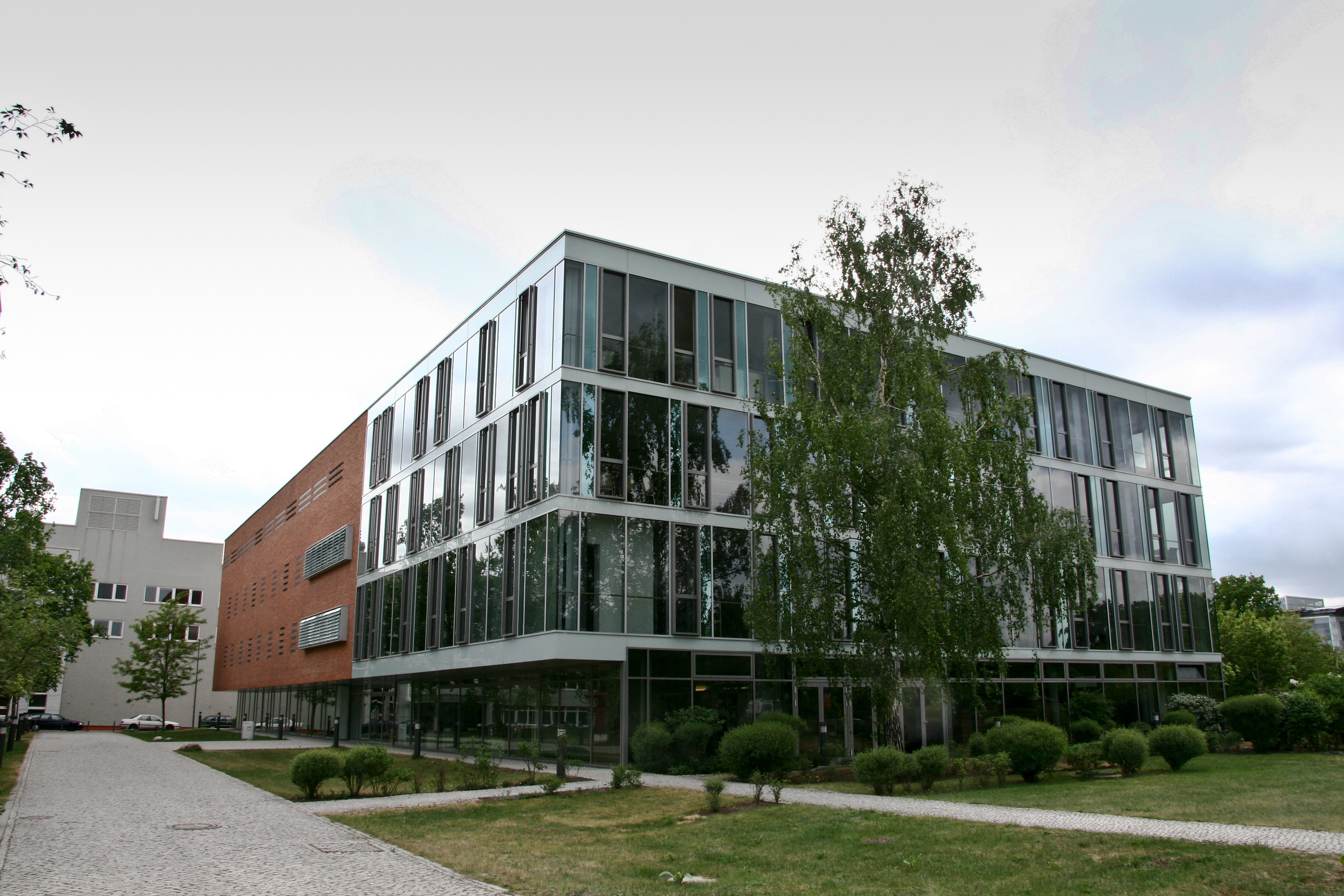 German Radio Archive, one of two location, here: in Potsdam near Berlin